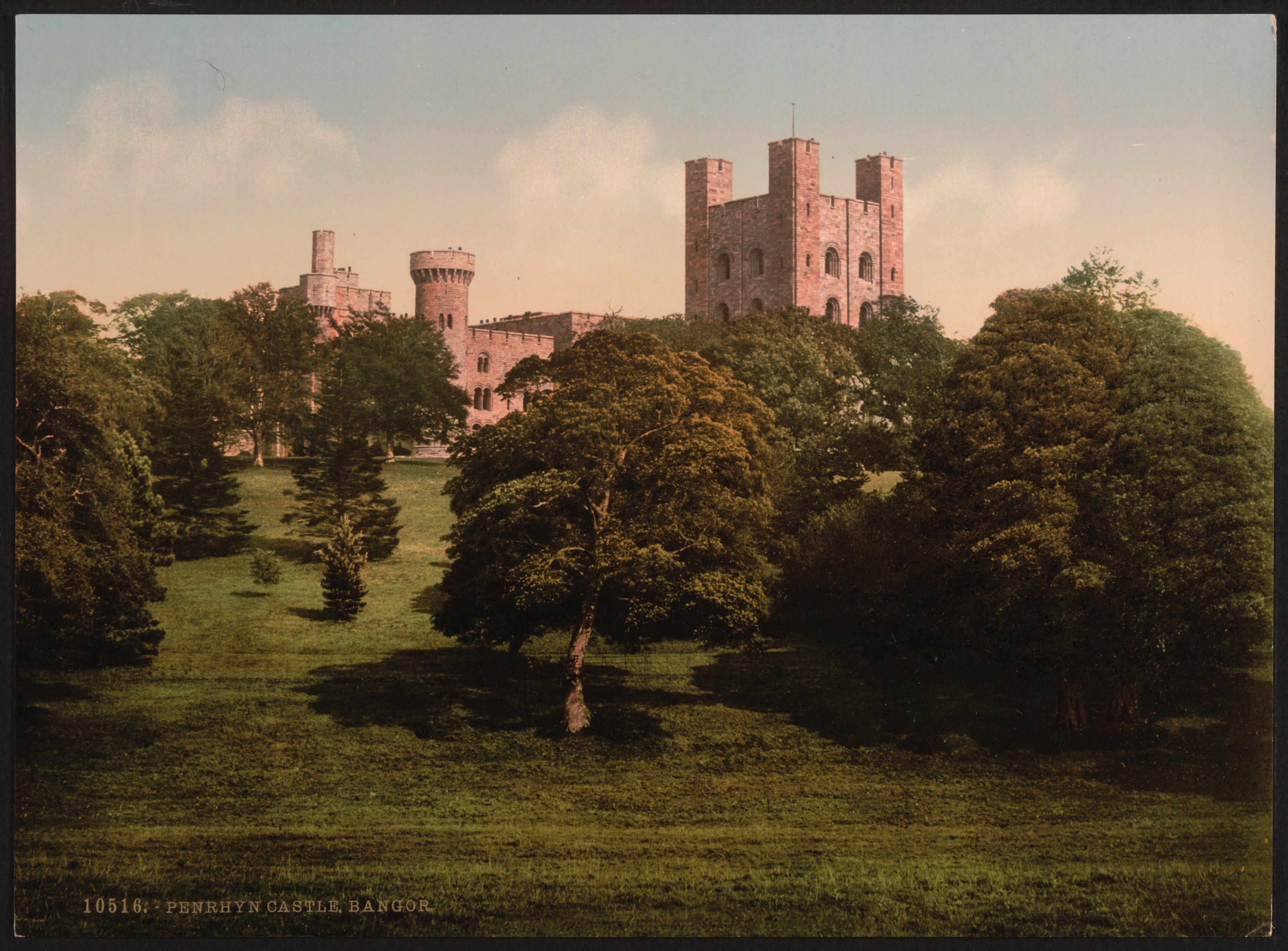 Title from the Detroit Publishing Co., catalogue J-foreign section. Detroit, Mich. : Detroit Photographic Company, 1905.; More information about the Photochrom Print Collection is available at Forms part of: Views of landscape and architecture in Wales in the Photochrom print collection.; Print no. "10516".